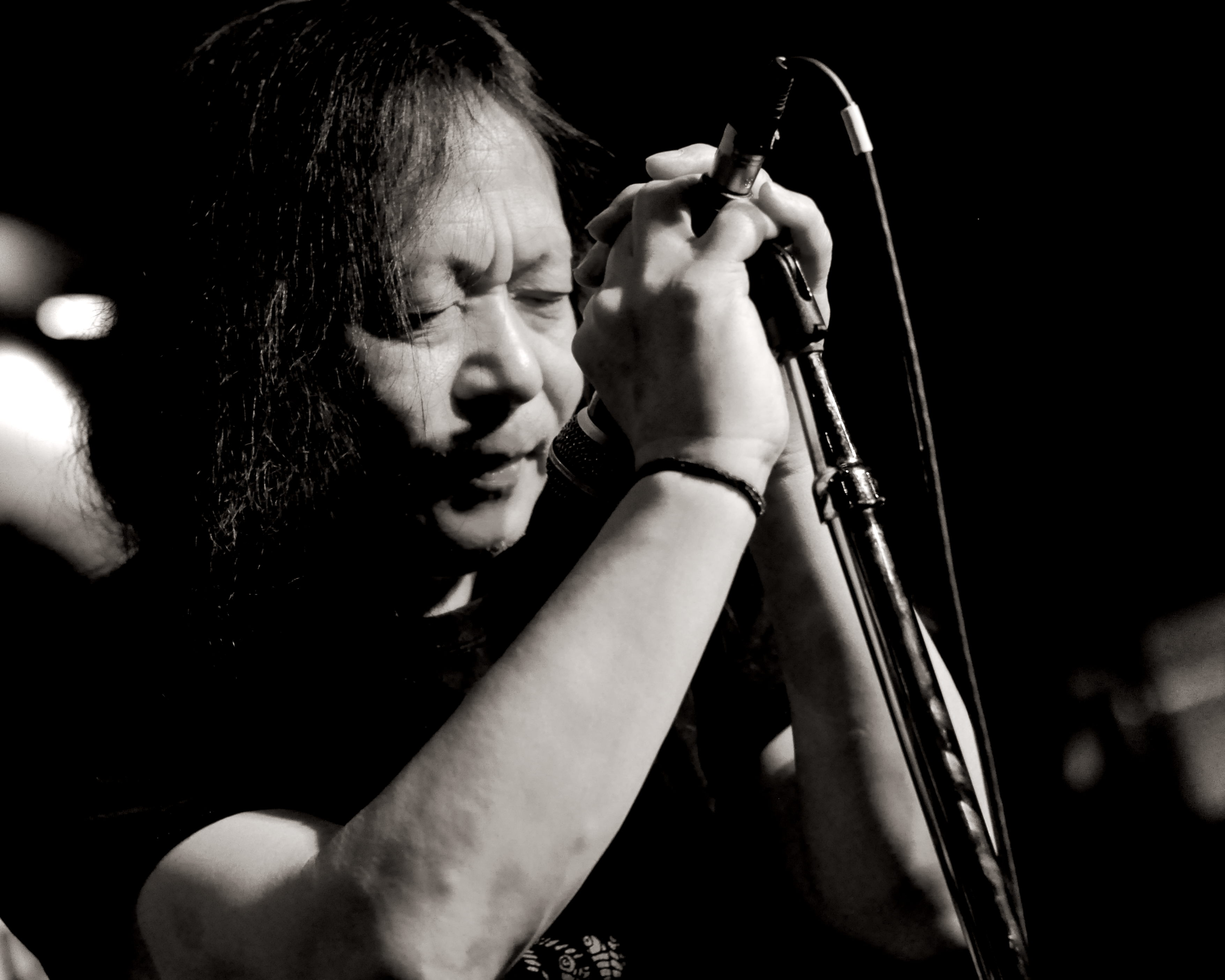 Damo Suzuki live at the Dominion Tavern, Ottawa, Ontario, Canada; March 23, 2012